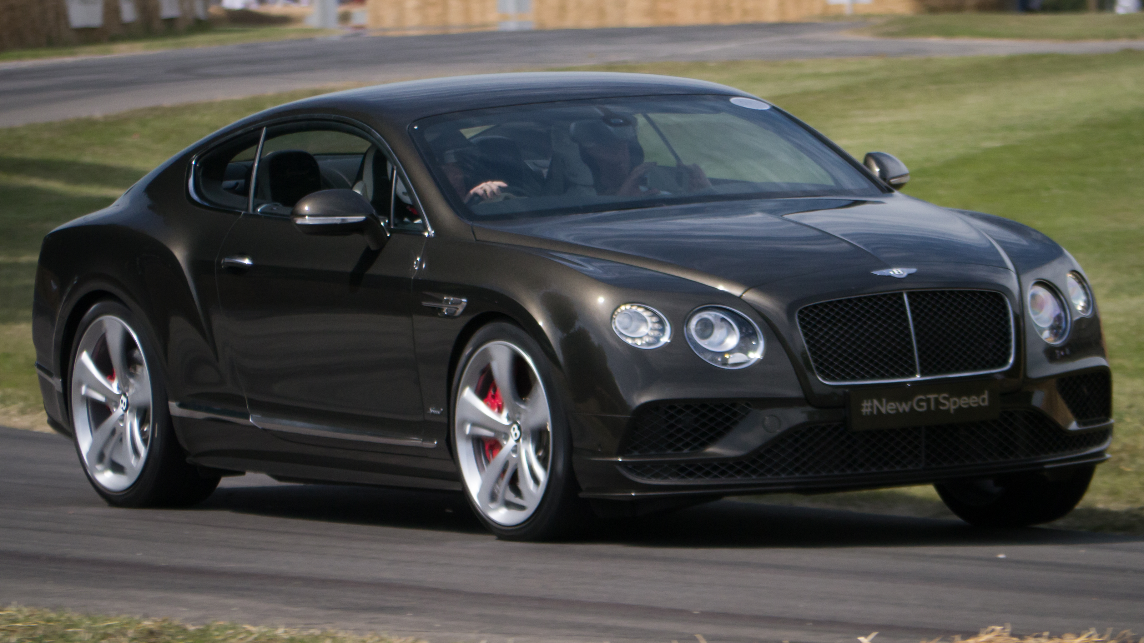 2015 Bentley Continental GT Speed